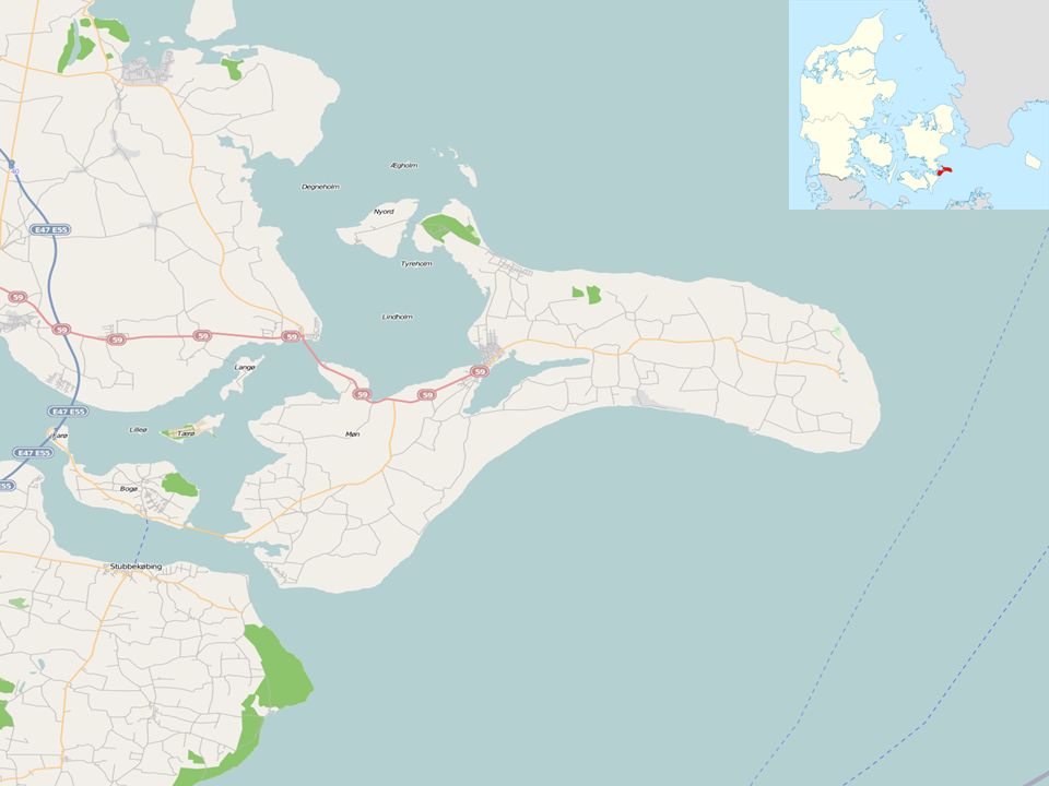 Map of Møn, Denmark Geographic limits of the map: N: 55.152° S: 54.789° W: 11.951° E: 12.668°